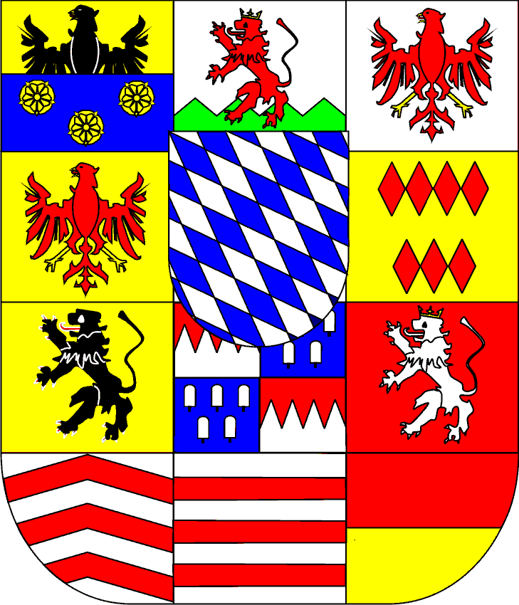 coats of arms of the county of Löwenstein-Wertheim; 1: county of Wertheim, 2: county of Löwenstein, 3: lordship of Montaigu, 4: lordship of Rochefort (old), 6: county of Virneburg, 7: county of Königstein, 8: county of Limpurg, 9: lordship of Scharfeneck, 10: lordship of Eppestein, 11: lordship of Breuberg, 12: lordship of Münzenberg; heart: duchy of Bavaria